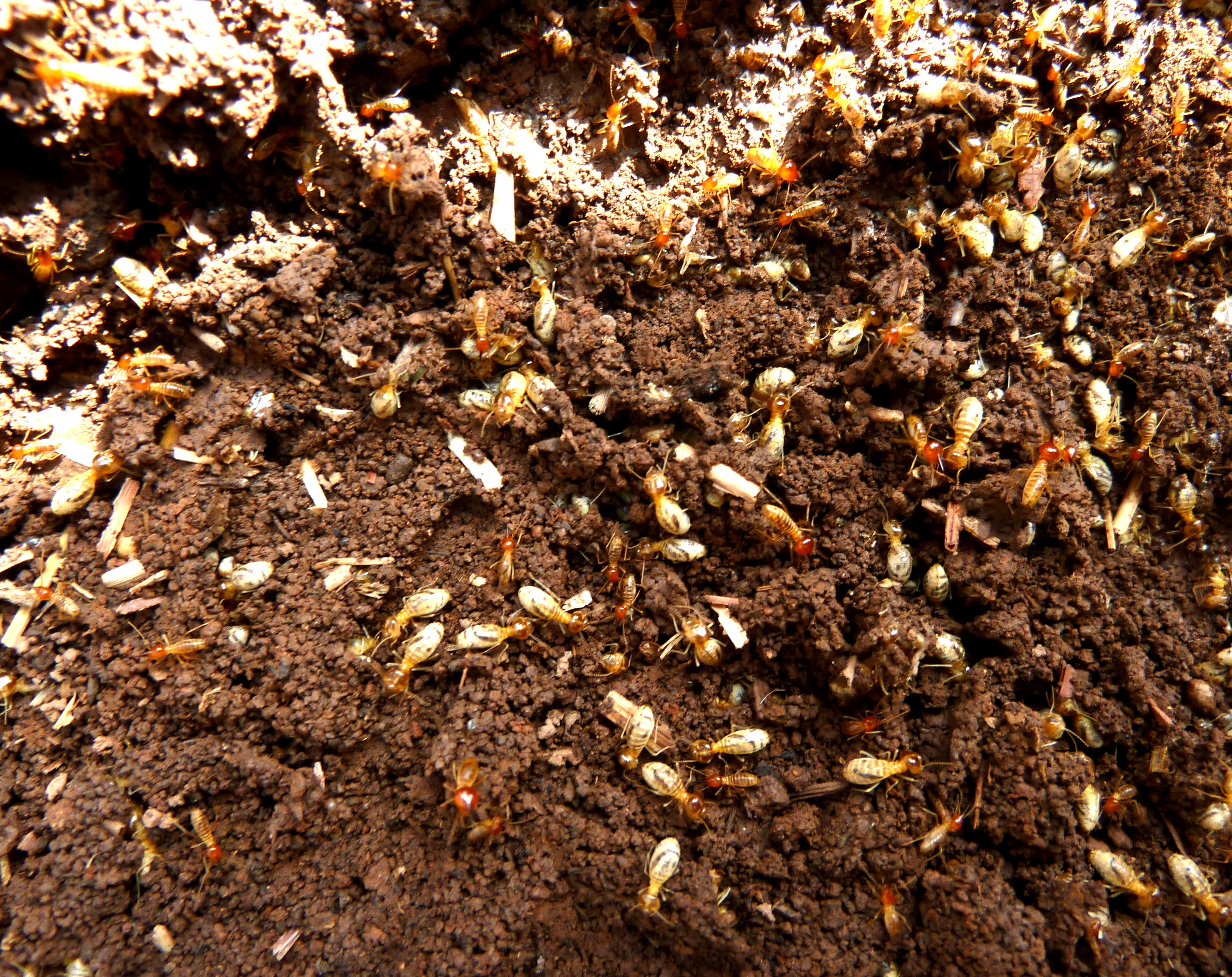 Crater termites of the worker and soldier castes attending to damage of their nest, Schanskop, Pretoria